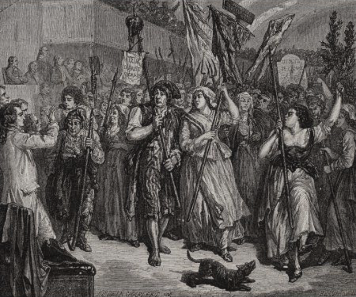 Invasion of the Assembly (20 june 1792). Engraving by De La Charlerie.